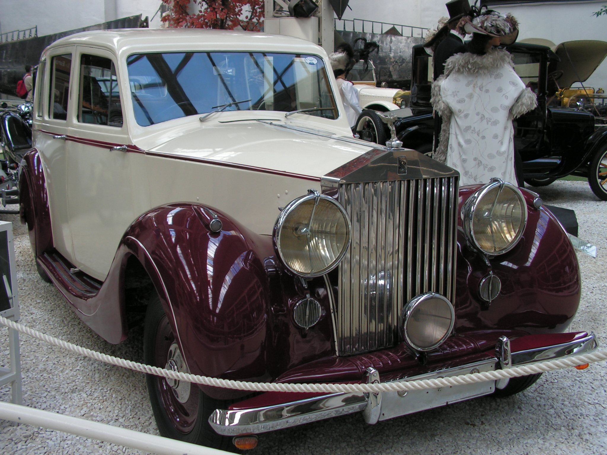 1949 Rolls-Royce Silver Wraith in the Technik Museum Speyer (Germany)